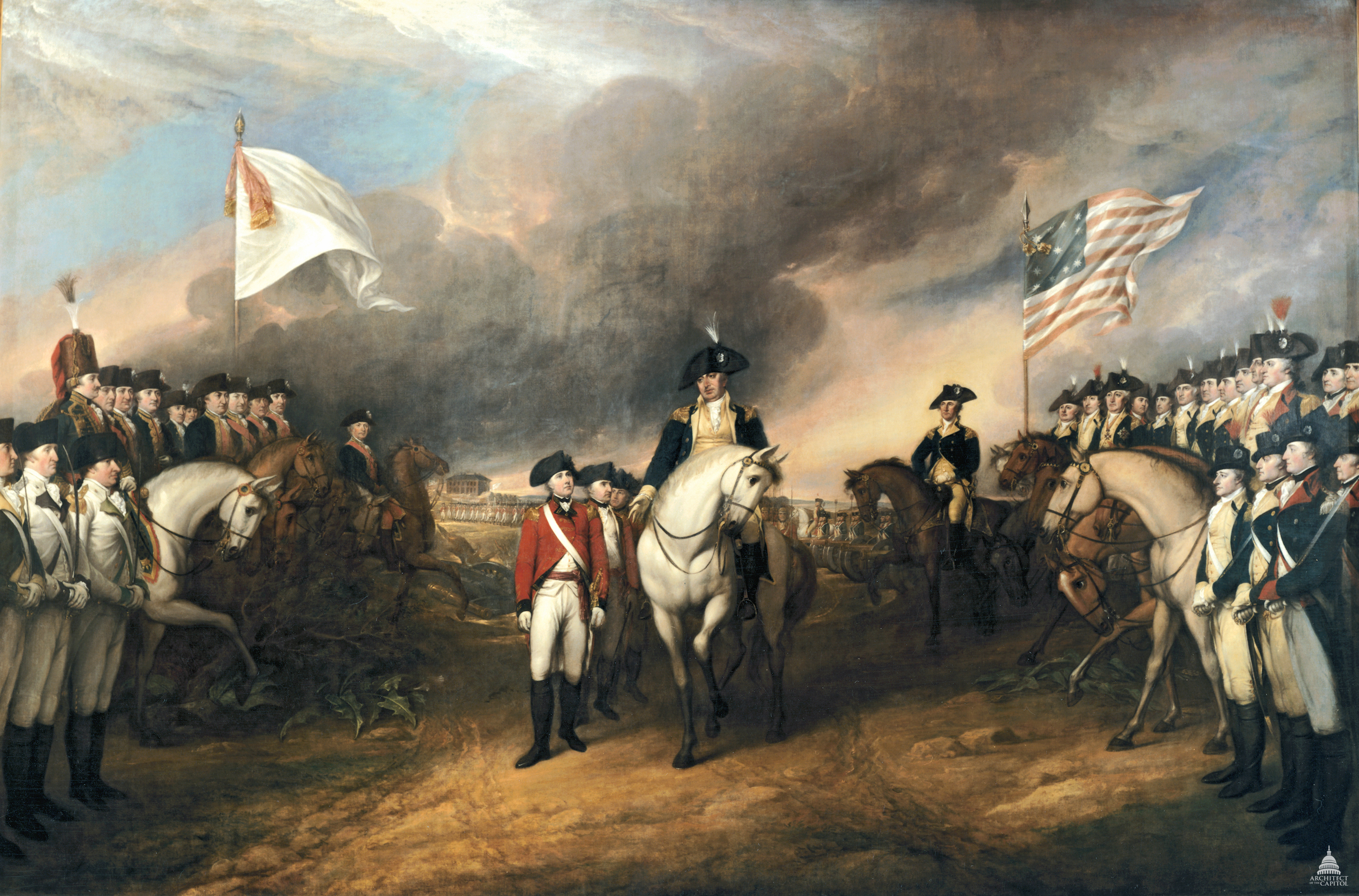 John Trumbull Oil on canvas, 12' x 18' 1820; placed 1826 Rotunda U.S. Capitol The subject of this painting is the surrender of the British army at Yorktown, Virginia, in 1781, which ended the last major campaign of the Revolutionary War. This official Architect of the Capitol photograph is being made available for educational, scholarly, news or personal purposes (not advertising or any other commercial use). When any of these images is used the photographic credit line should read “Architect of the Capitol.” These images may not be used in any way that would imply endorsement by the Architect of the Capitol or the United States Congress of a product, service or point of view. For more information visit